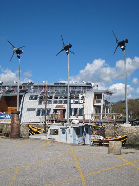 Jubilee Wharf Penryn Viewed from Exchequer Quay